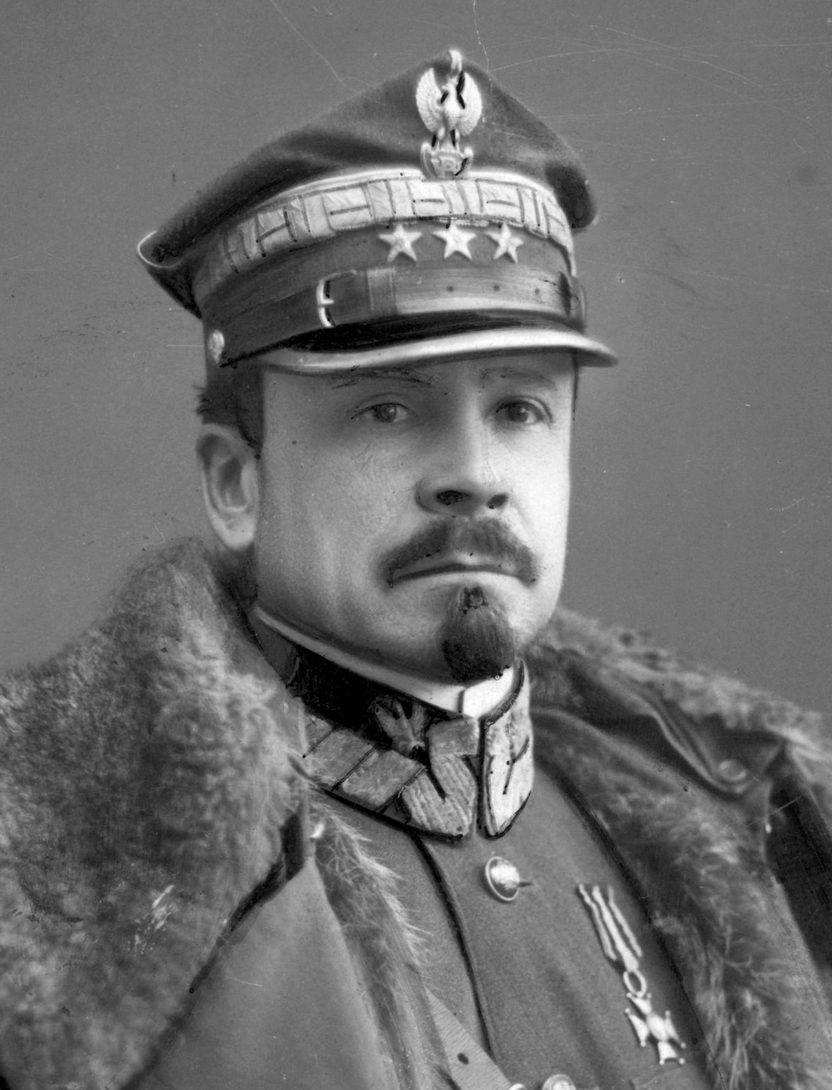 General Józef Haller